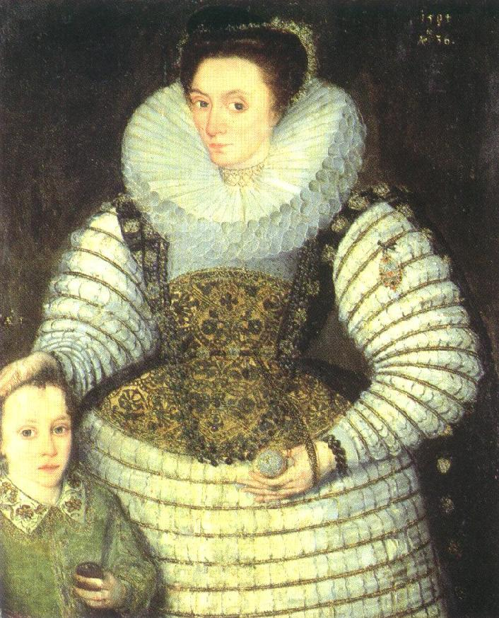 Frances Walsingham, countess of Essex, and her son Robert, later the third Earl of Essex, by Robert Peake the elder, 1594. Inscribed top right "1594 AEte 36", over the child's head "AEte 5" Attributed to Robert Peake in Strong, Roy, The English Icon: Elizabethan and Jacobean portraiture. London: Paul Mellon Foundation for British Art; New York: Pantheon Books, 1969. OCLC 78970800. Offered Sotheby's 1988, present collection unknown.